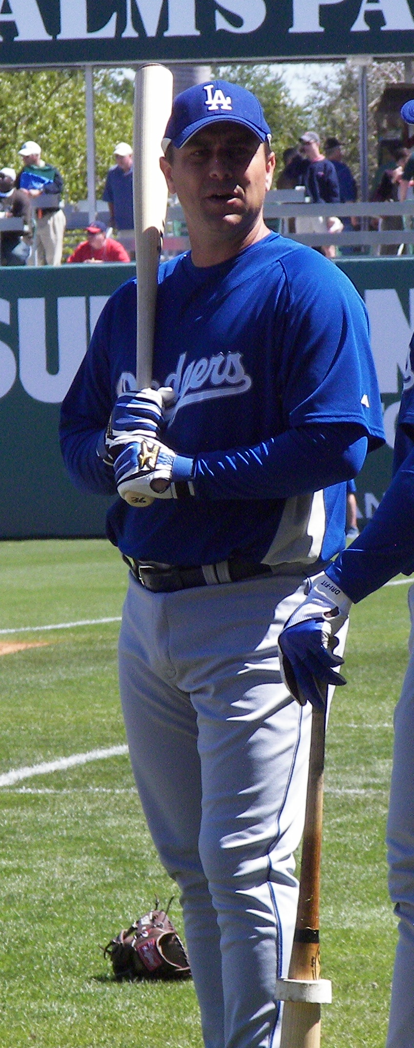 Los Angeles Dodgers catcher Ken Huckaby before a Dodgers/Boston Red Sox spring training game at City of Palms Park in Fort Myers, Florida.